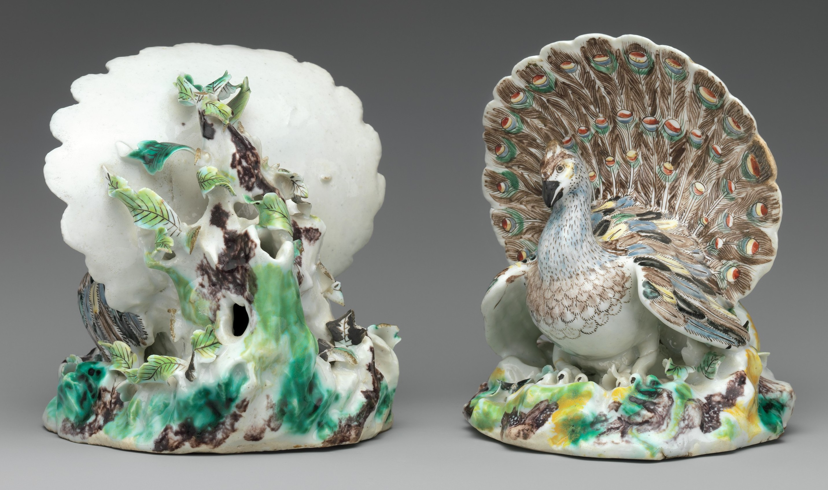 French, Villeroy; Figures; Ceramics-Porcelain